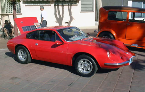 Brazilian Puma GTE, a Volkswagen-based sports car. Taken by Morven at the weekly Garden Grove, California car show. This is a 1977-1980 facelift version, with modified bumpers and rear quarter windows.